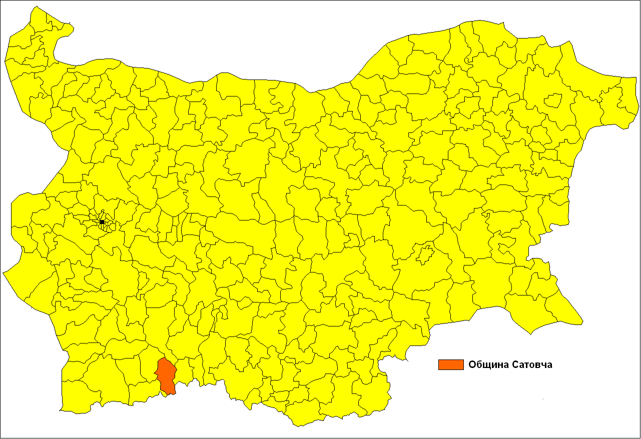 Satovcha Municipality.